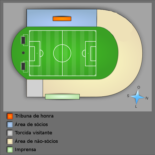 Estádio de São Januário dividido em setores.